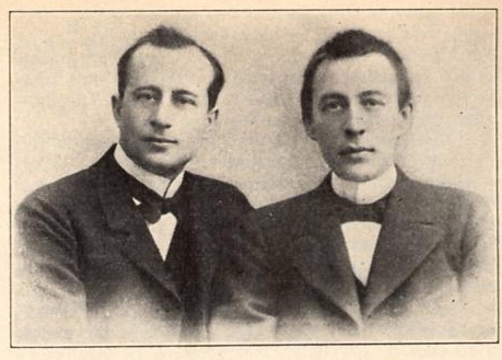 "SILOTI AND HIS PUPIL, RACHMANINOFF". Photoportrait of Alexander Siloti (left) and Sergi Rachmaninoff, from page 299 of the May 1922 issue of "The Etude" Magazine.